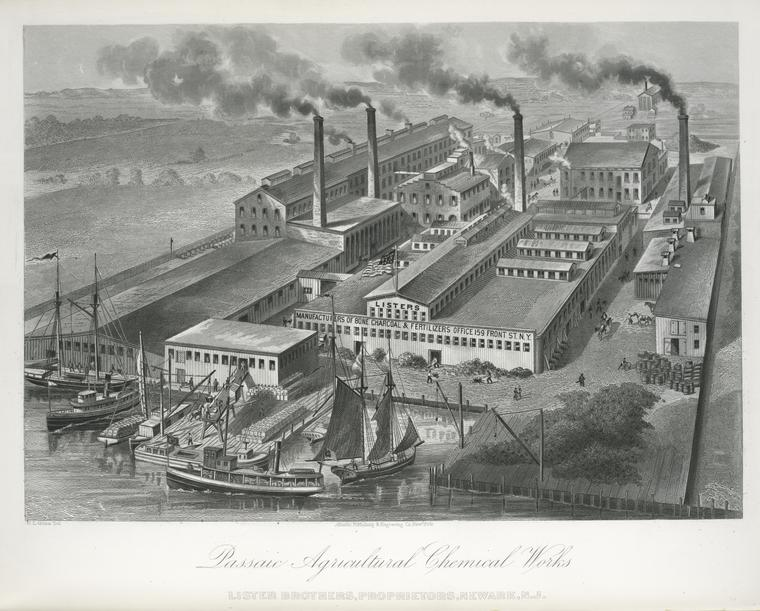 The Passaic Agricultural Chemical Works. Lister Brothers, Proprietors, Newark, N.J. (1876)